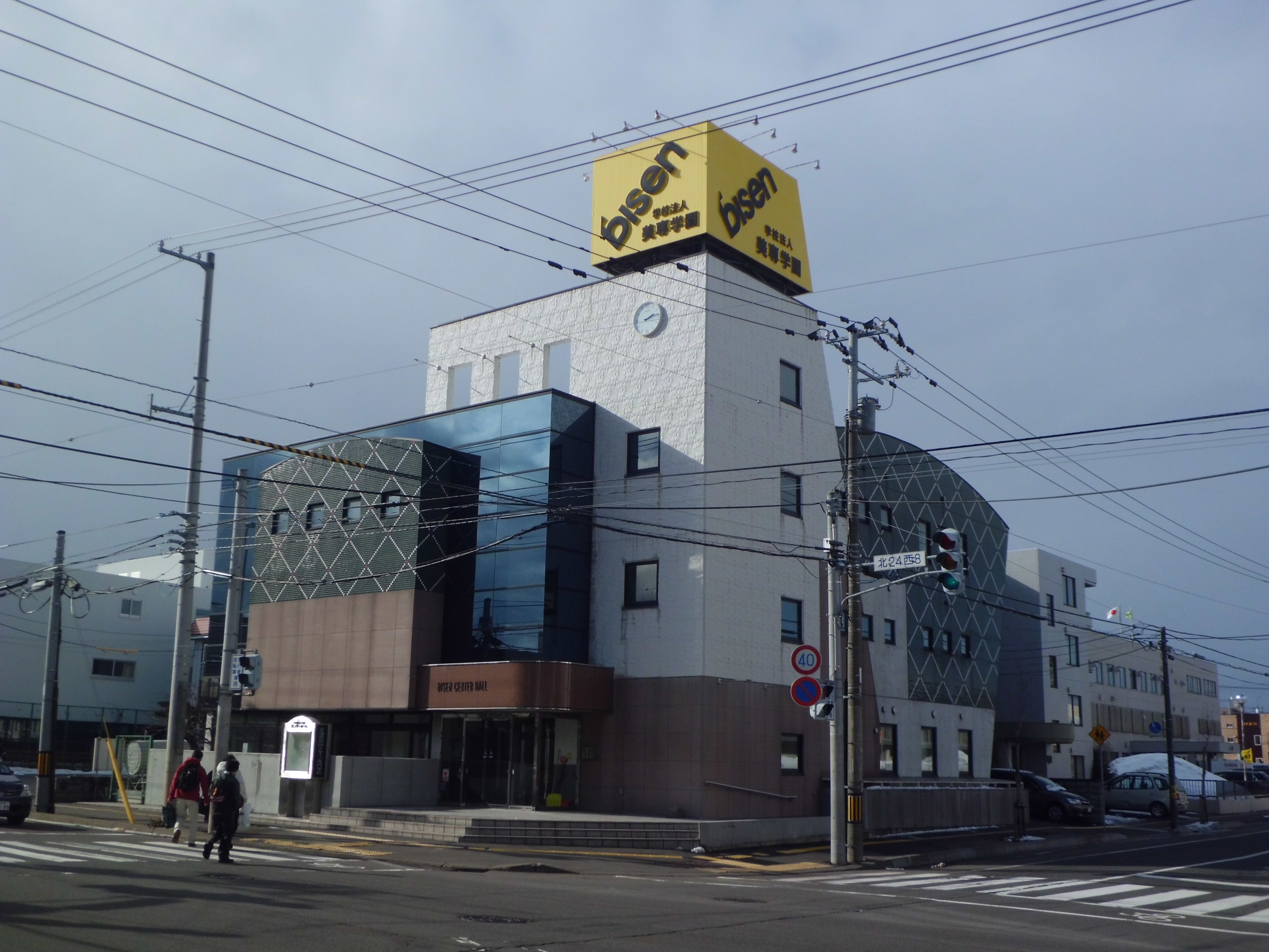 Hokkaido Collage of Art and Design; Bisen Center Hall.